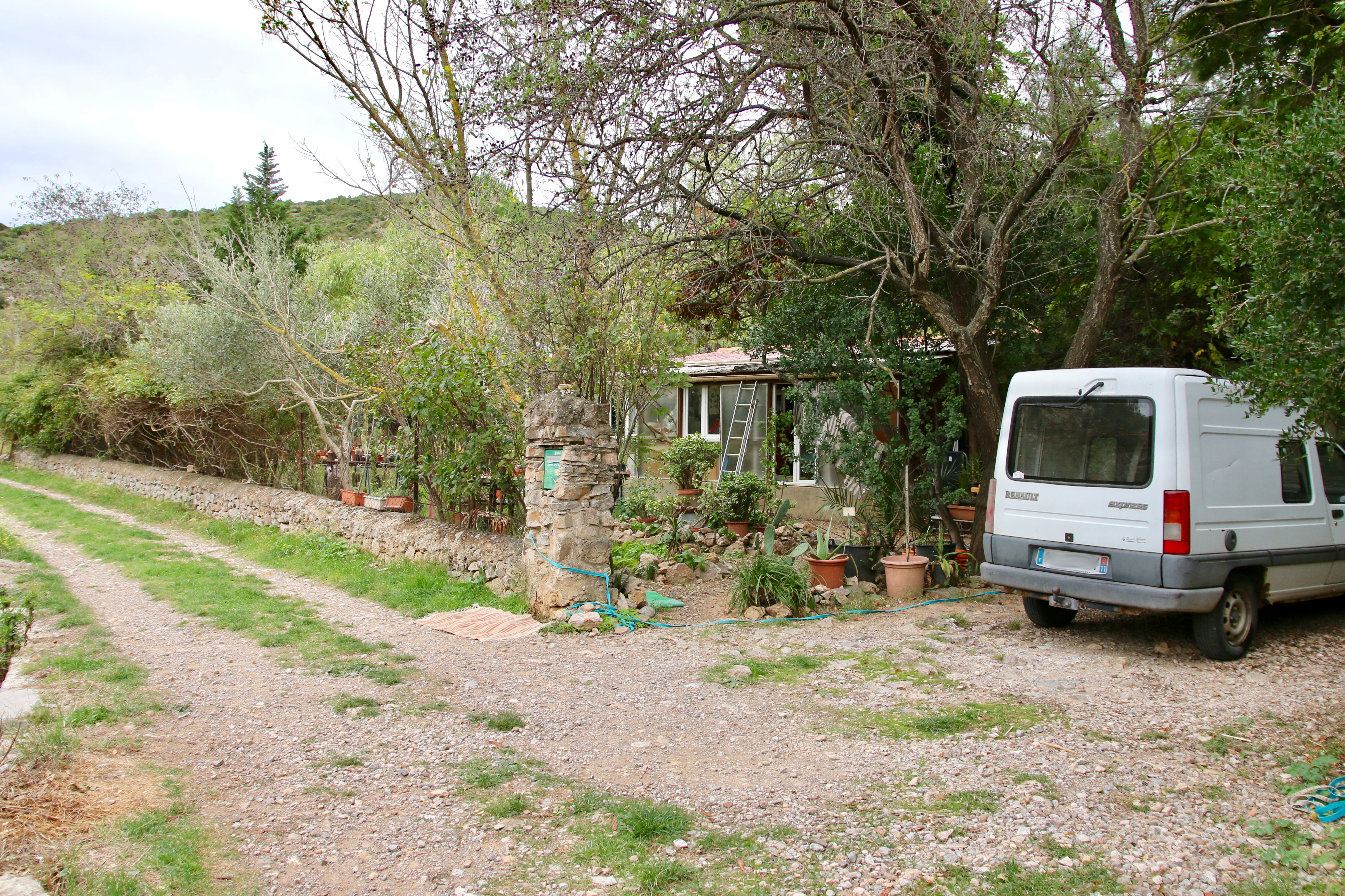 The entrance of the botanical garden in Foncaude near Feuilla/France.